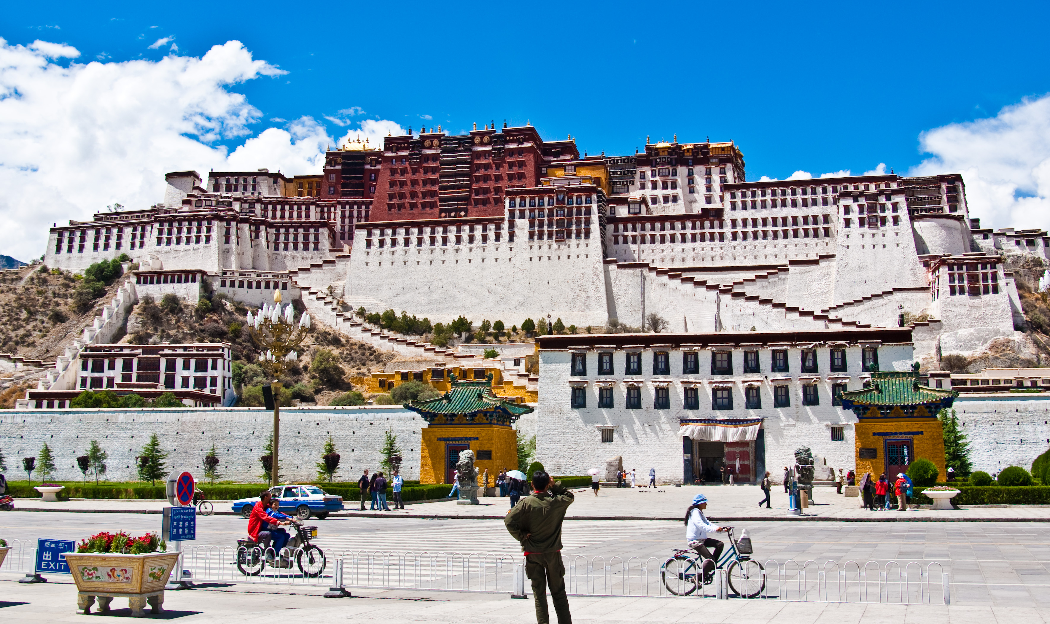 The Potala palace